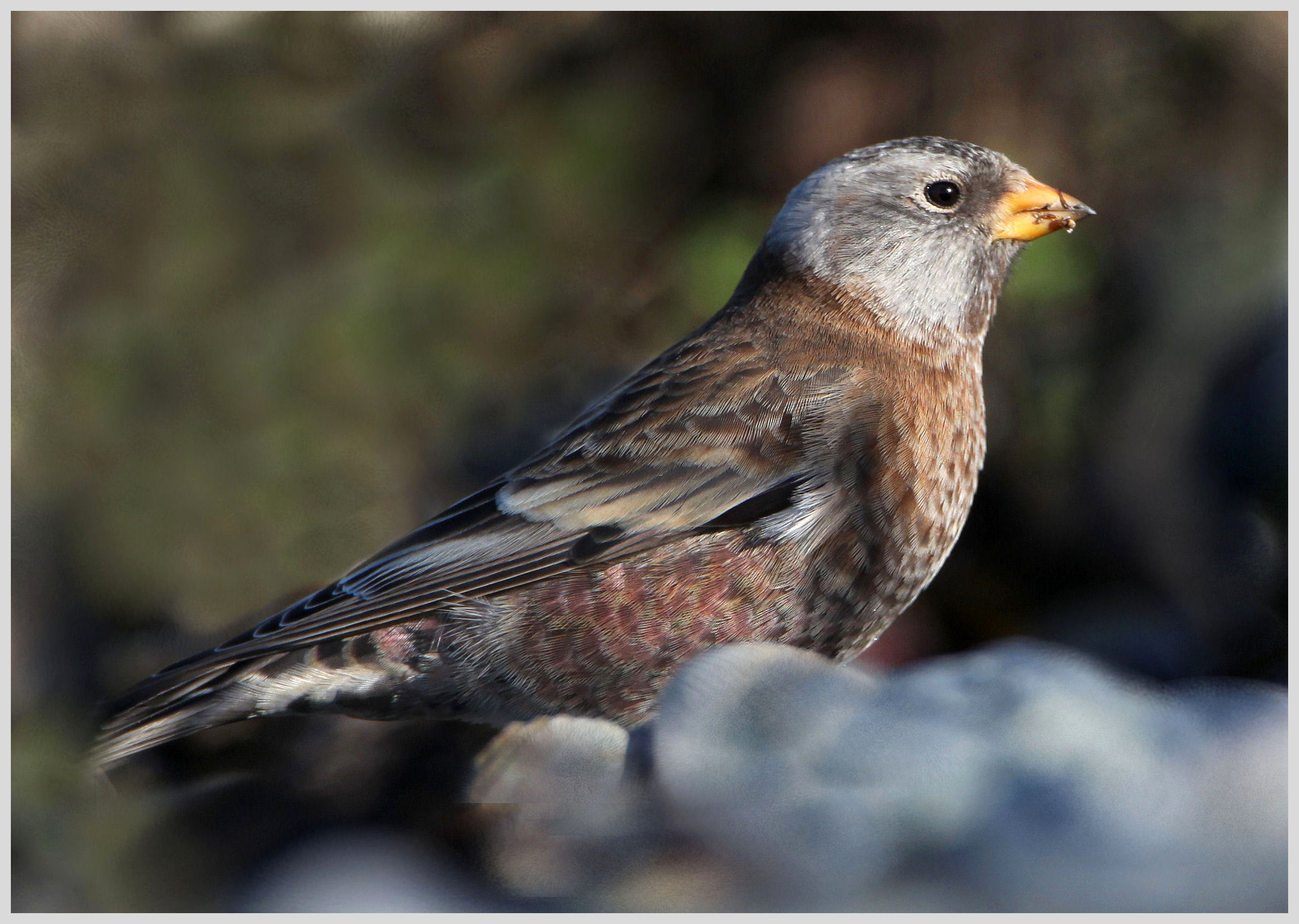 Gray-crowned Rosy Finch Leucosticte tephrocotis, British Columbia, Canada